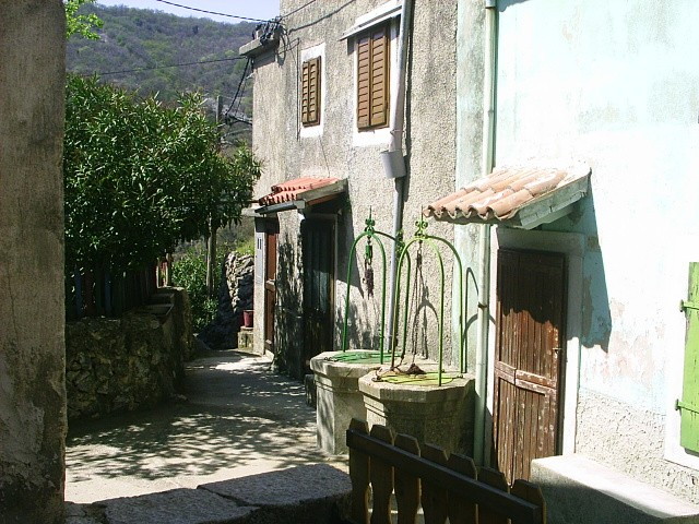 A town of Beli at the Cres Island, Croatia